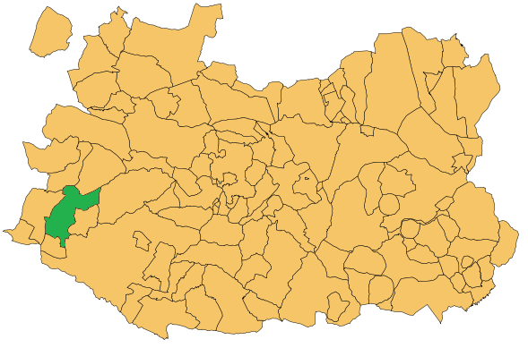 Almadén